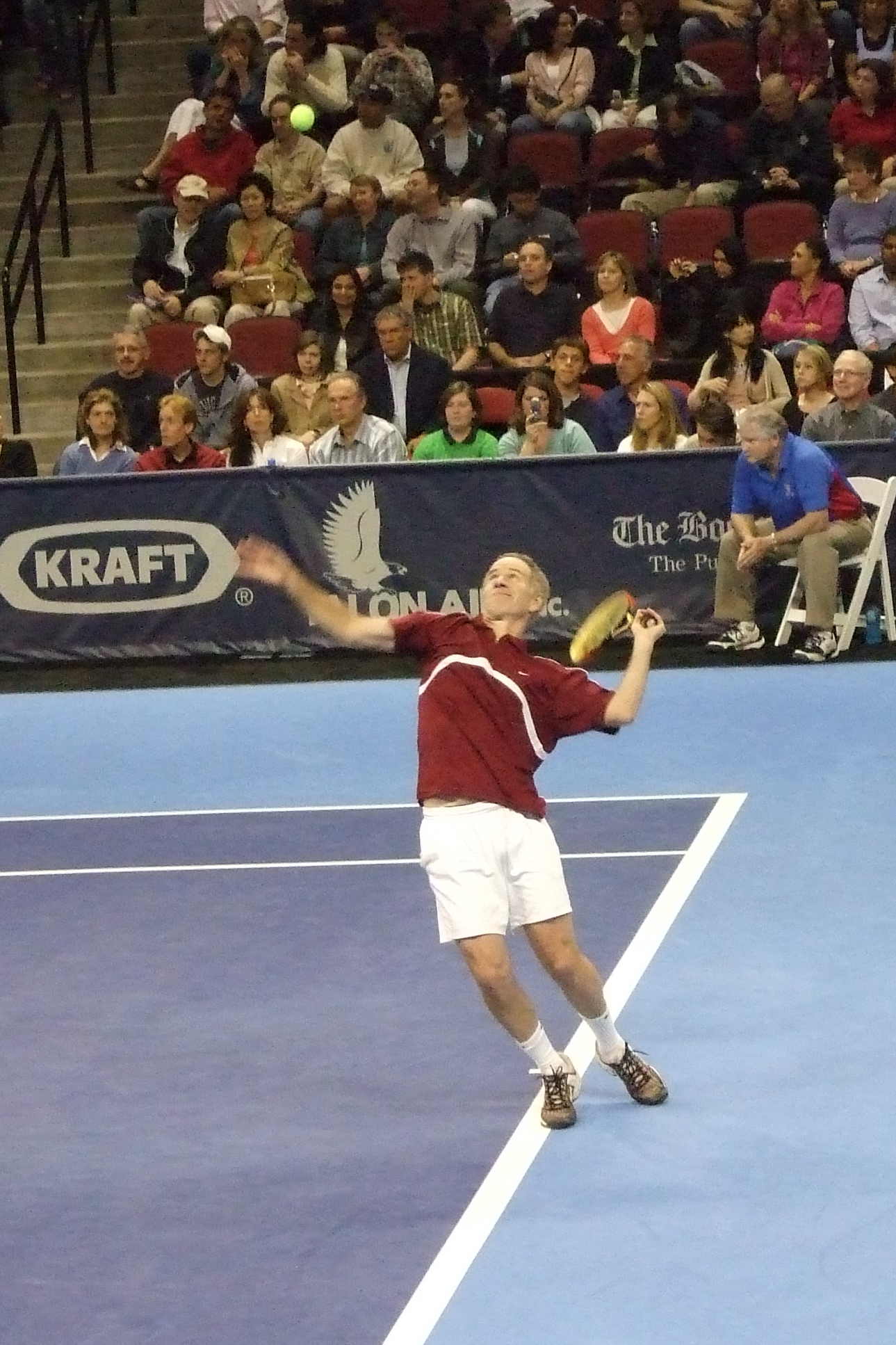 John McEnroe Serving. Champions Cup Boston (note the foot fault)